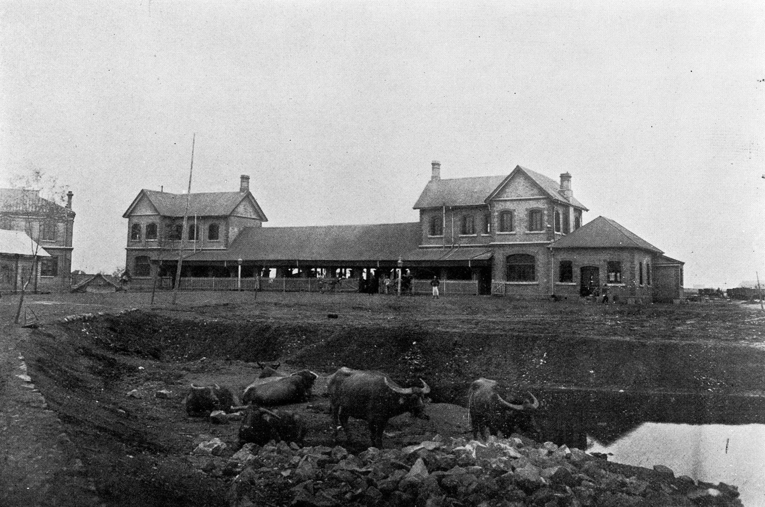 Photo from Souvenir of Nanking